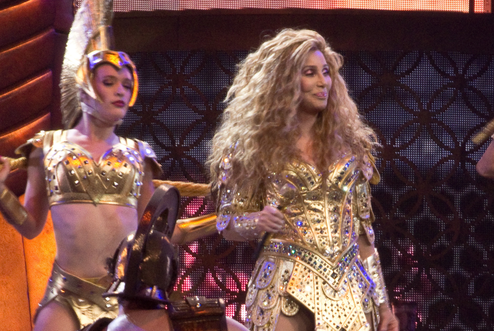 Cher performing live in concert, 2014.